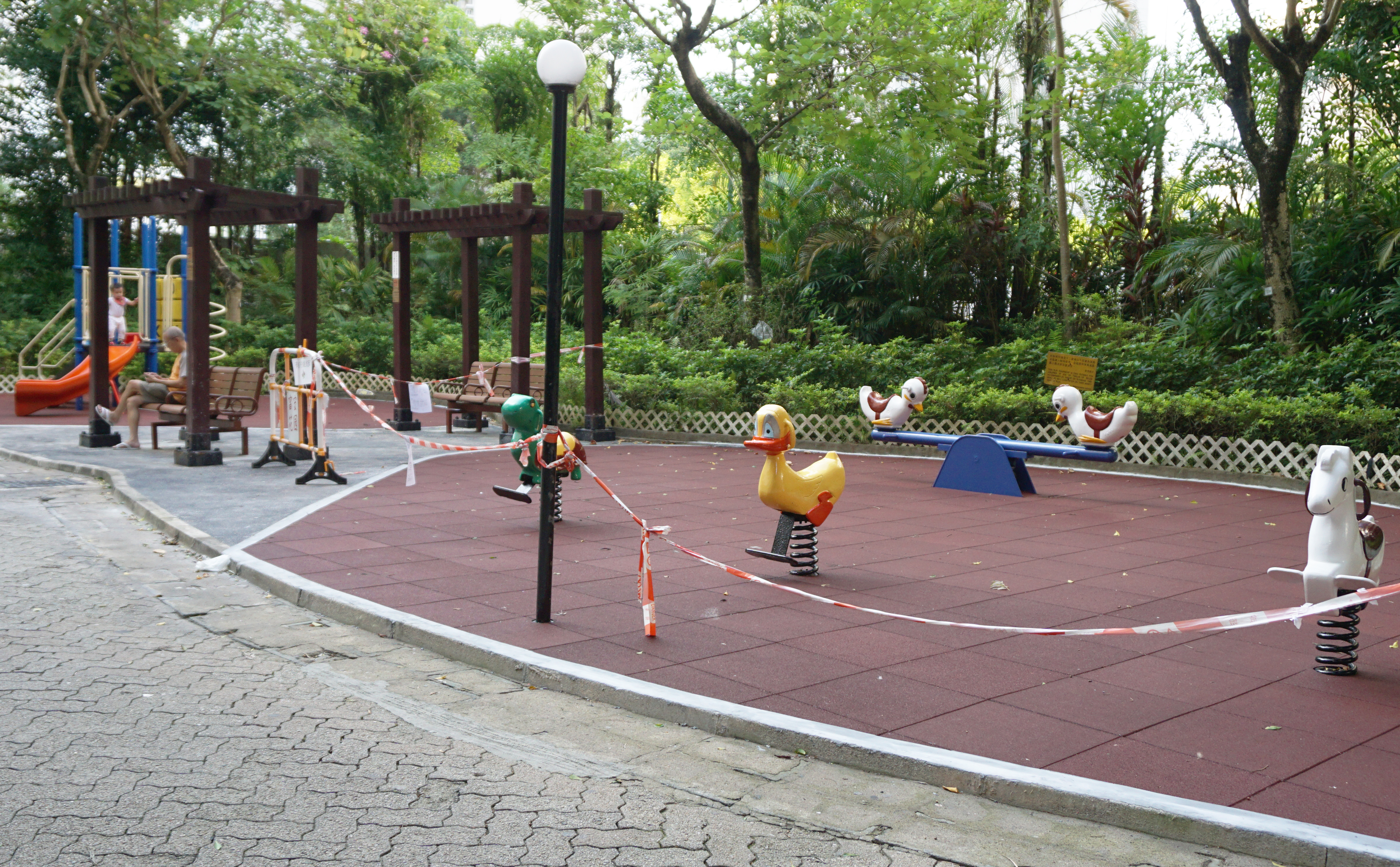 Chevalier Garden in Tai Shui Hang, Hong Kong.